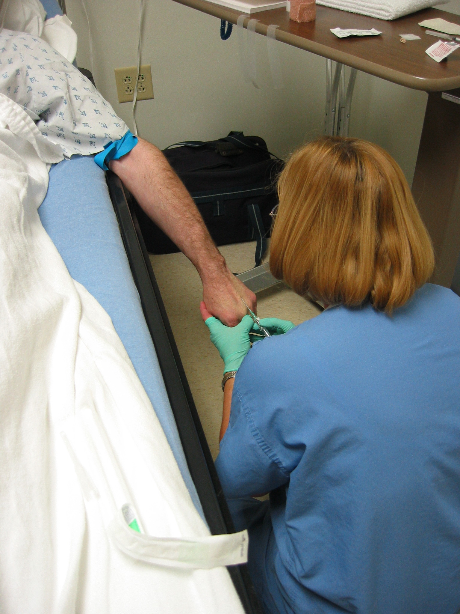 Intravenous access on a vein of the left hand.